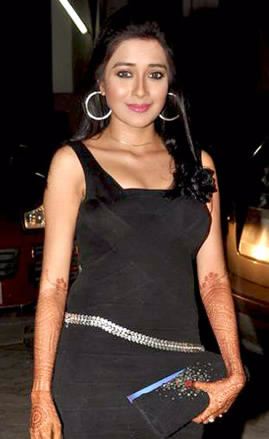 Tina Dutta at Shahid, Anushka, Jacqueline and Tanushree at Telly Chakkar's Talent Awards